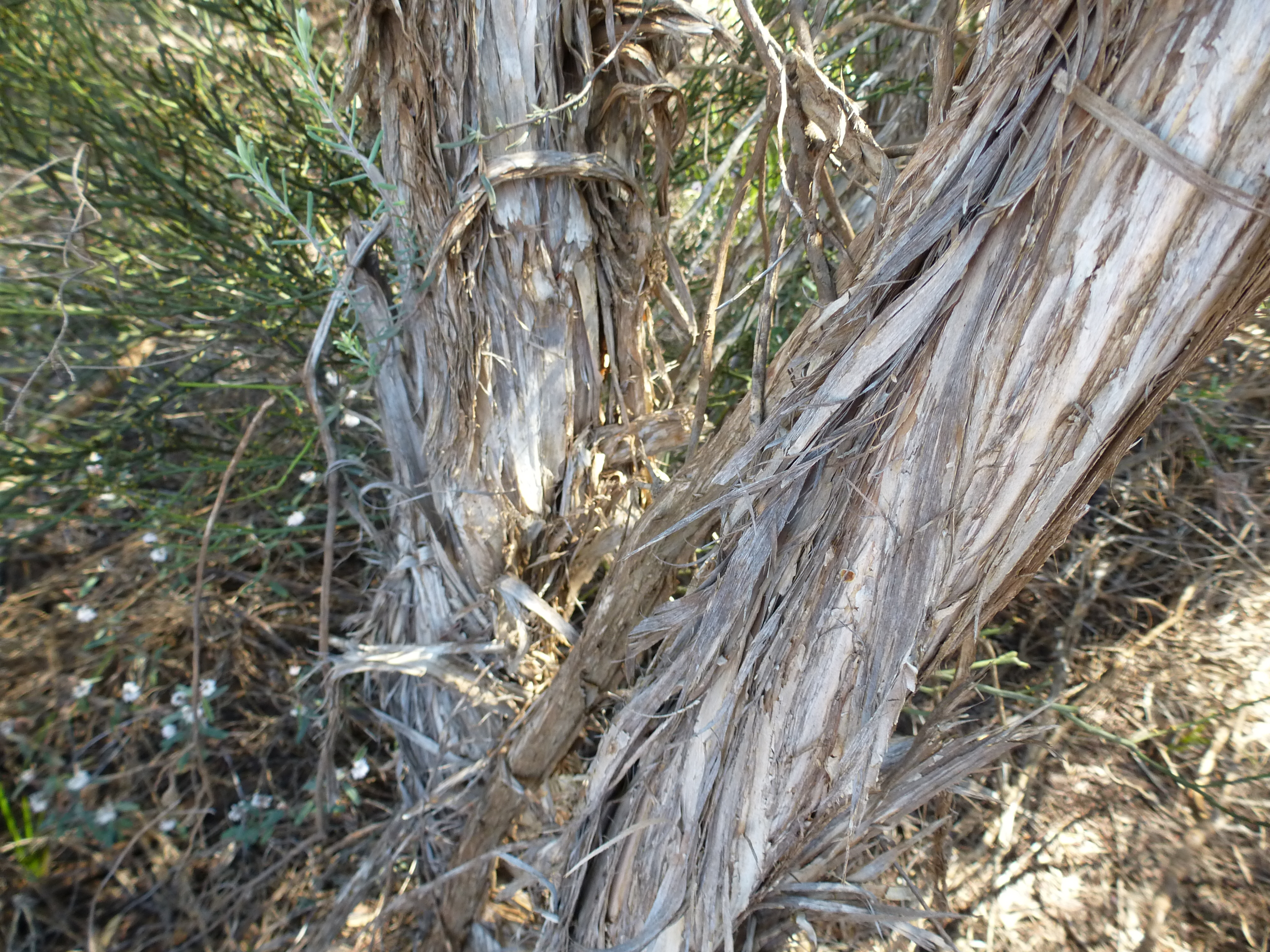 Melaleuca hamata growing along Elverdton Road near Ravensthorpe